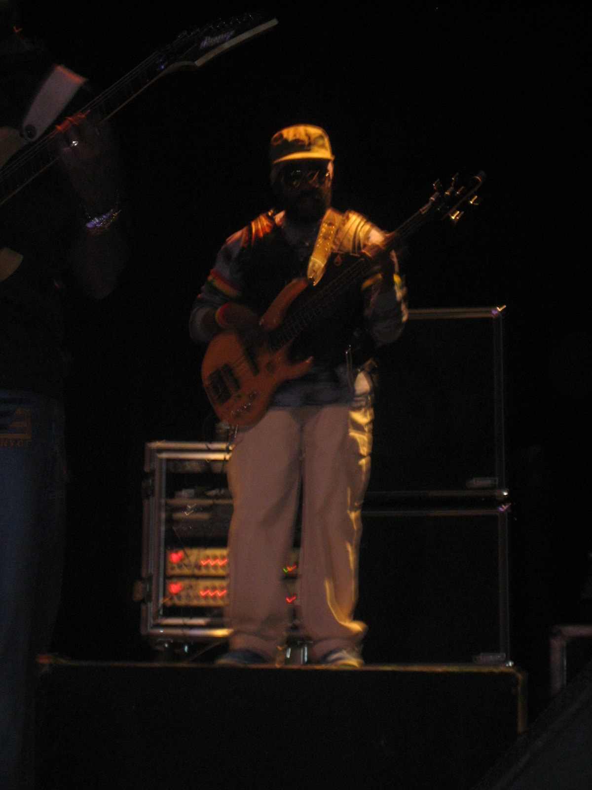 Aston Barrett playing with the Wailers band in Tucson, Az. March 22 2008